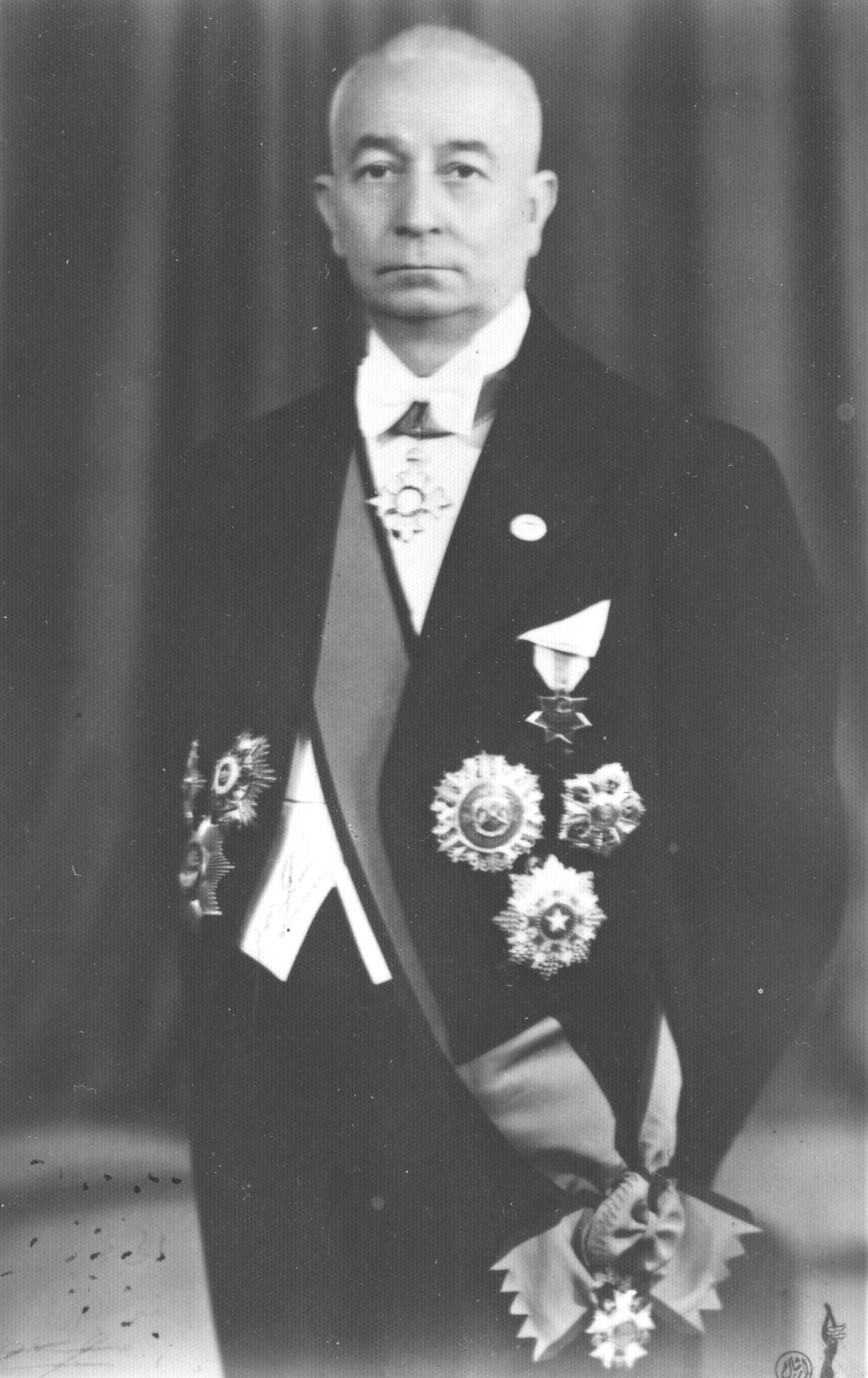 Iraqi former Prime-Minister Arshad Al-Umari